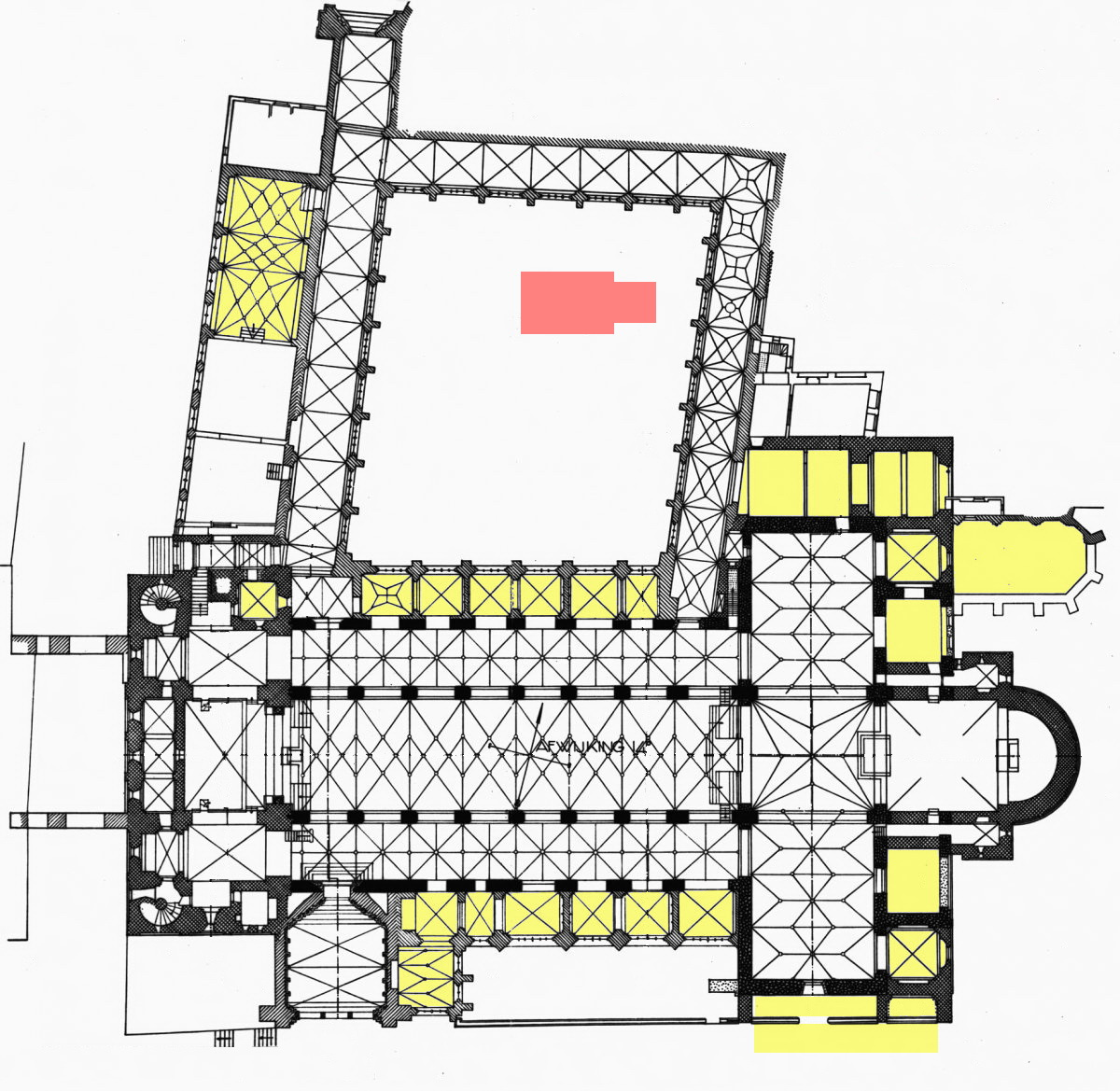 Locator map of chapels of the Basilica of Saint Servatius in Maastricht, the Netherlands. This map by an unknown author was first published in 1926 in Van Nispen tot Sevenaers De monumenten in de gemeente Maastricht, Deel 1, and donated to Wiki Commons by Rijksdienst voor het Cultureel Erfgoed on 7 January 2013. All colouring and other edits are by Kleon3. In yellow all 17 chapels of Sint-Servaasbasiliek in past and present. In red the possible location of the chapel of Saint Livinius in the cloister yard.